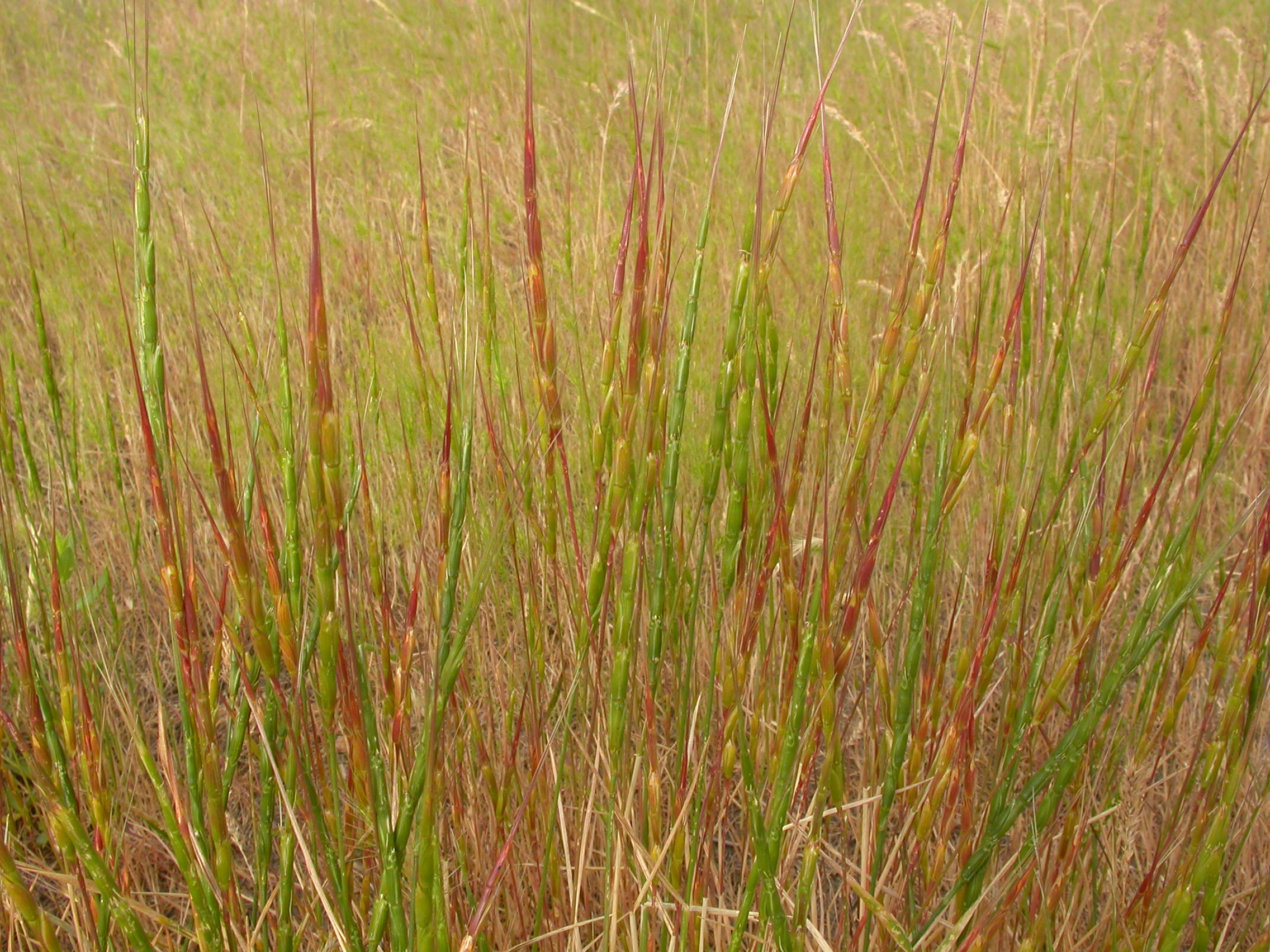 Jointed goatgrass has a very distinctive cylindrical inflorescence where the internode and the adjacent spikelet shatter (disarticulate) as a unit.